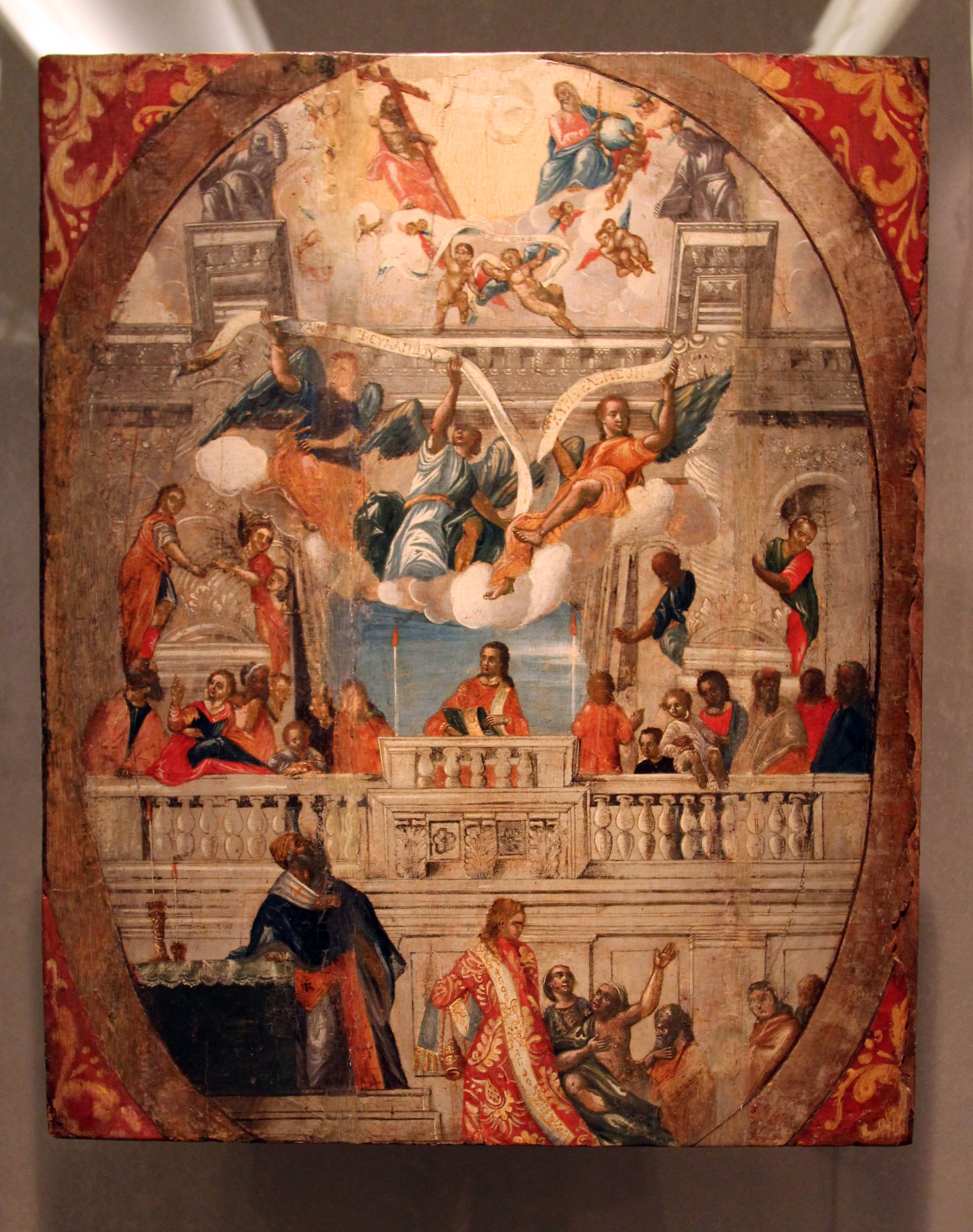 Βυζαντινό και Χριστιανικό Μουσείο, Αθήνα. The Liturgy of St Spyridon Painted by the Lacedaimonian Panagiotis Doxaras. It is a largely unknown till recently sketch of the ceiling decoration of the church of Hagios Spyridon in Kerkyra (Corfu). The significant 18th c. painter used for the needs of this work the shape that had also been used by Paolo Veronese for the work “Apotheosis of Venice"" in palazzo Ducale, Venice. Type: PORTABLE ICON Origin: Ionian Islands Creator: Panagiotis Doxaras Measurement: 72 x 57,5 cm Exhibit Number: ΒΧΜ 02069